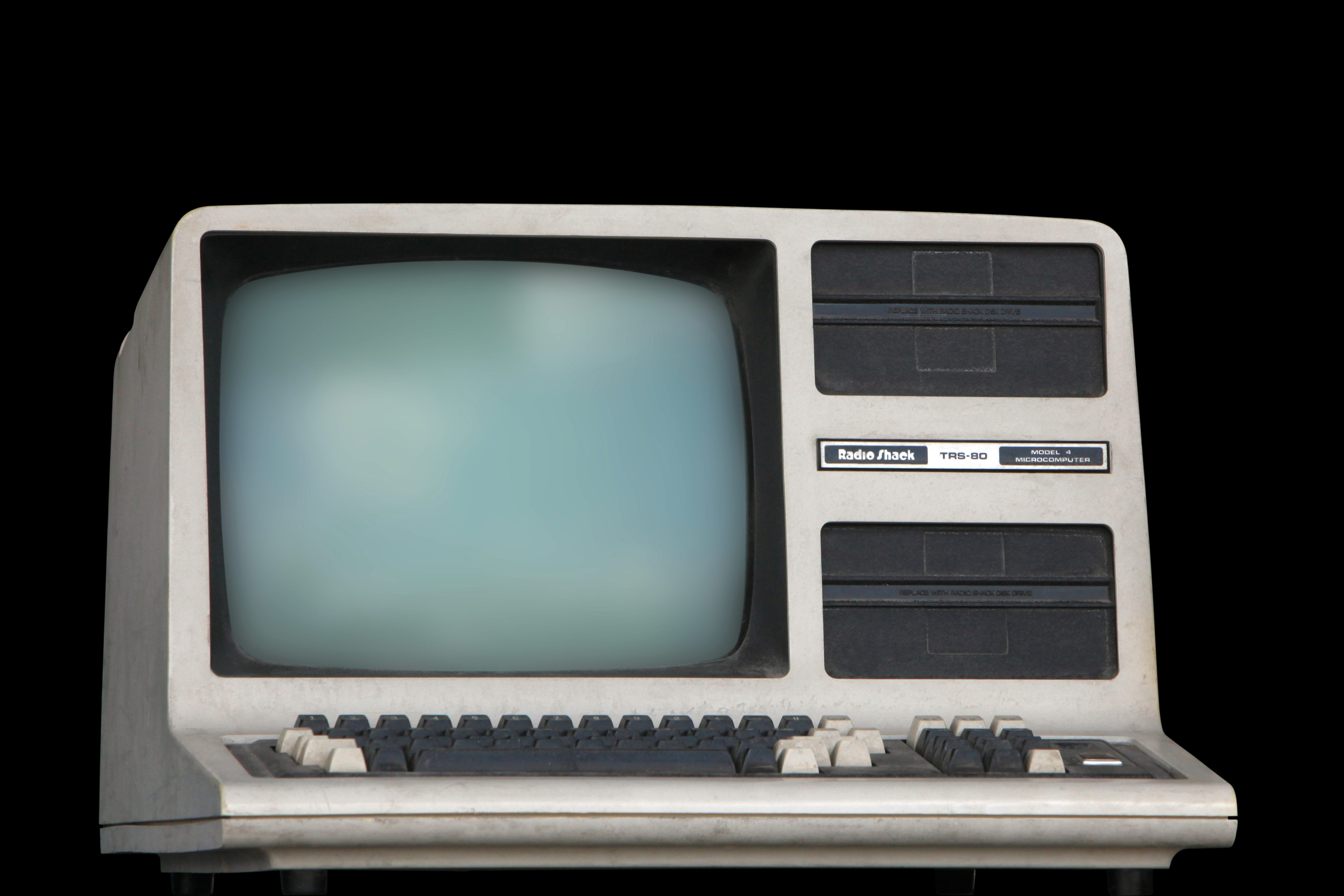 RadioShack TRS-80 model 4